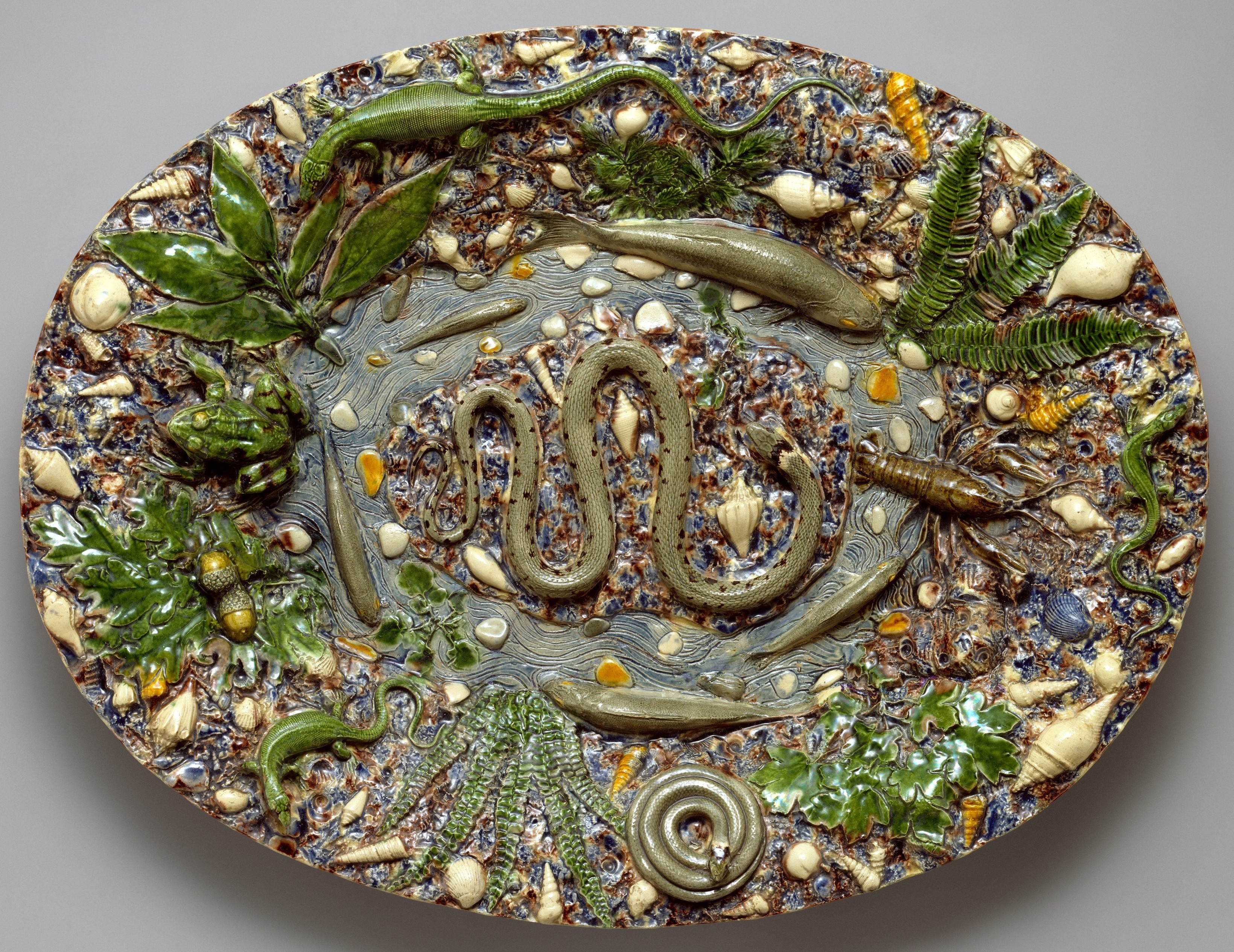 French, Paris; Platter; Ceramics-Pottery